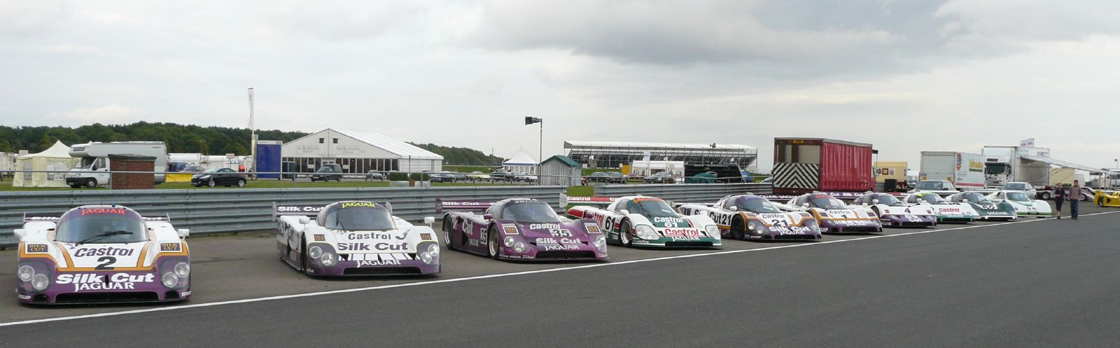 A series of varies types of Jaguar XJR sportscars.